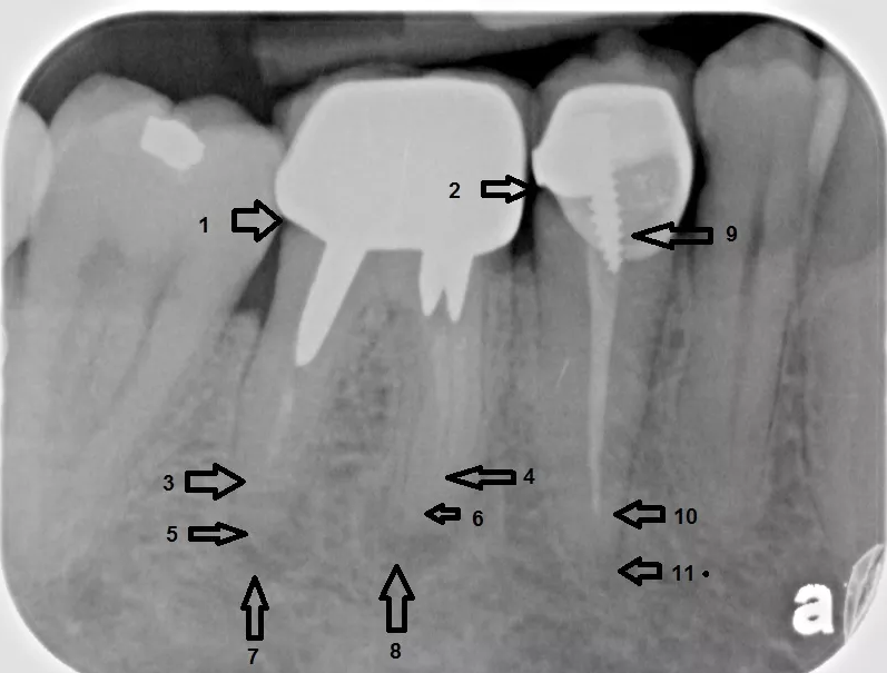 This X-ray shows two adjacent teeth that had received bad root canal therapy. The root canal filling material (3, 4 & 10) does not extend to the end of the tooth roots (5, 6 & 11). The dark circles at the bottom of the tooth roots (7 & 8) indicated infection in the surrounding bone. Recommended treatment is either to redo the root canal therapy if possible or extract the tooth and place dental implant(s).